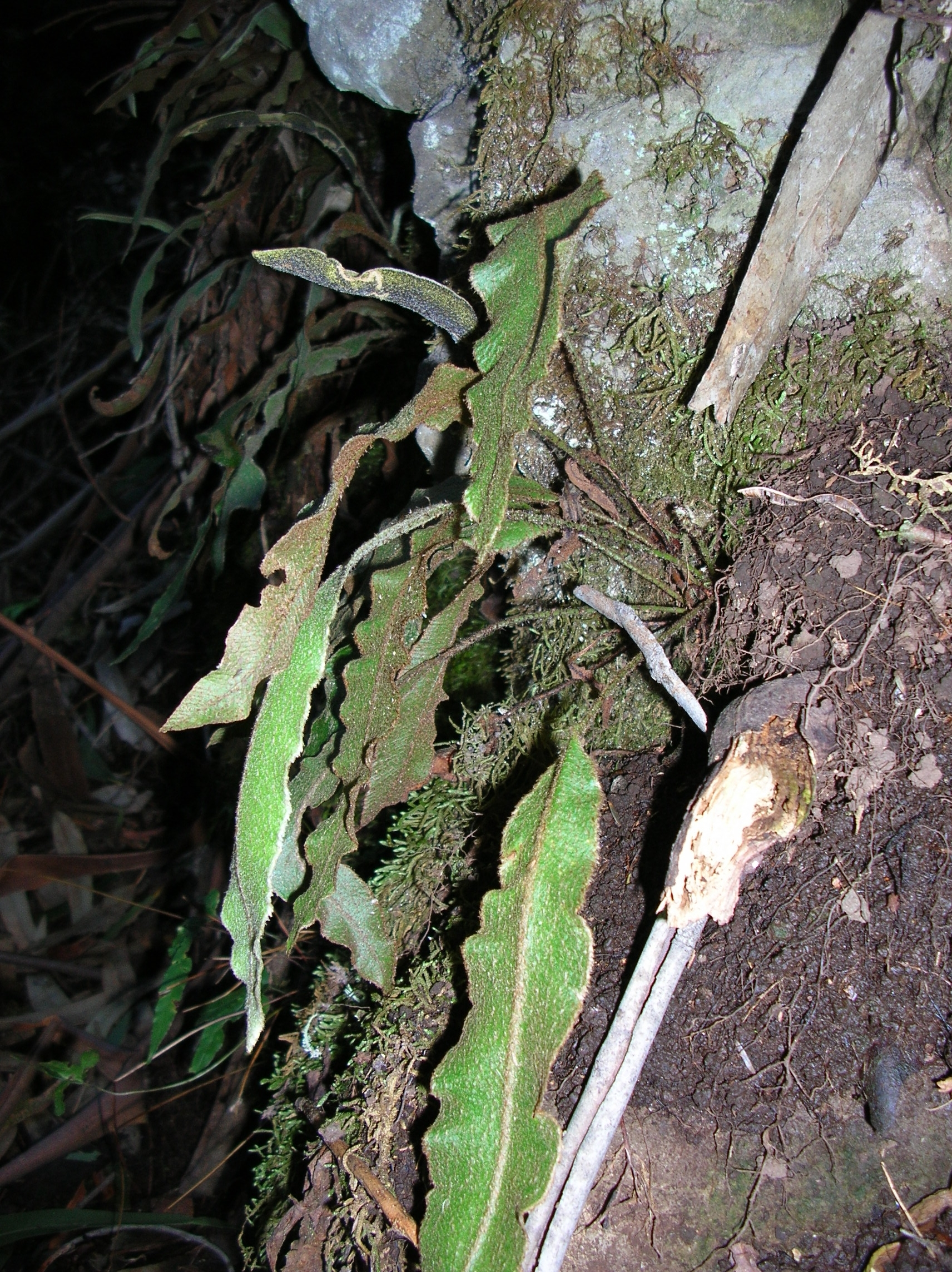 Elaphoglossum paleaceum (habit). Location: Maui, Puu Nianiau